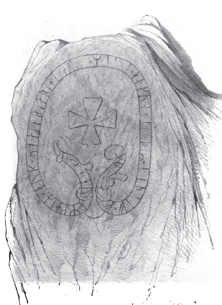 The runestone Sö 218. The inscription reads × hulmkaiR × auk × s(t)ainbiar- -ai- ---u × h--ua × (i)(f)tiR × k(u)þ(l)(i)f × fa-u-. In English "Holmgeirr and Steinbjôrn, they had (this) cut in memory of Guðleifr, (their) father."